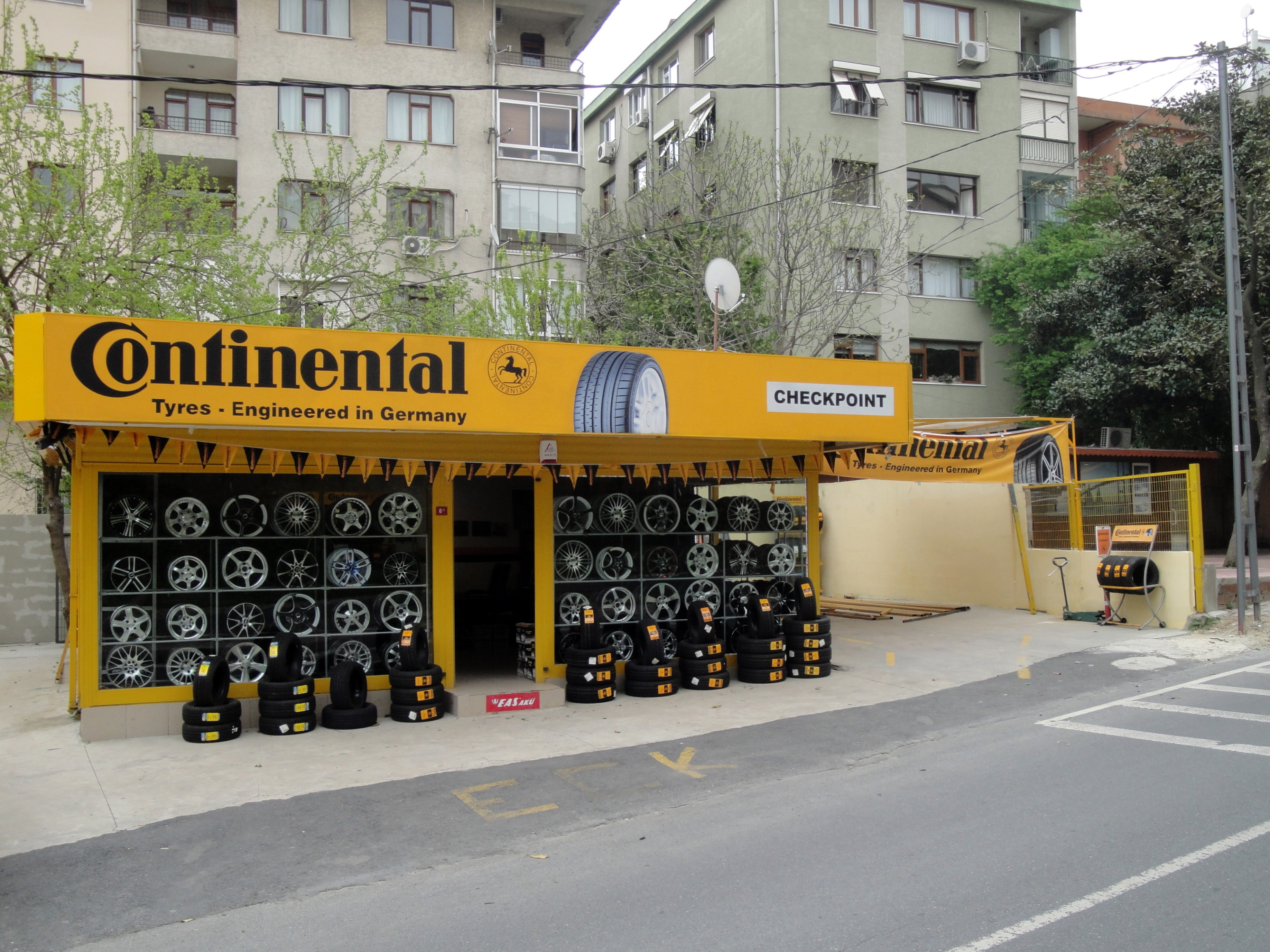 Continental tyre store in Istanbul